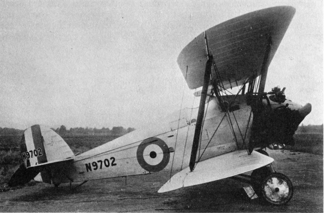 Parnall Plover, supercharged Jupiter at Martlesham